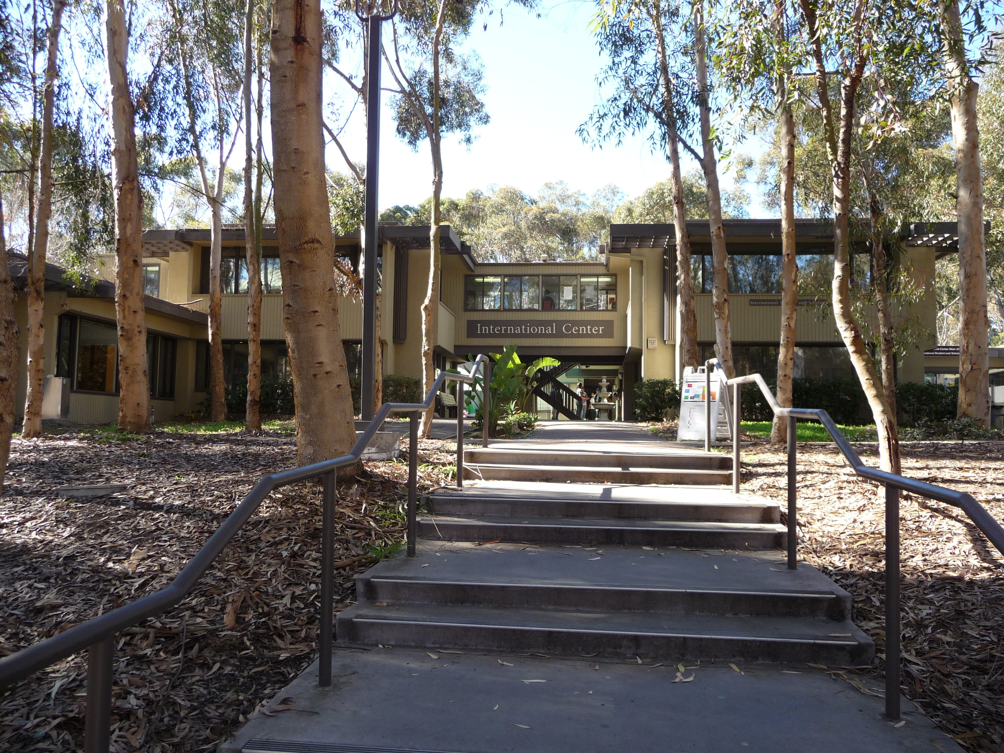 The International Center in University Center at UCSD, just off of Library Walk.